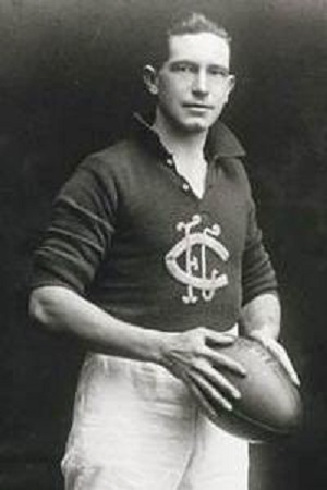 Photo of Dave Crone during his Carlton career